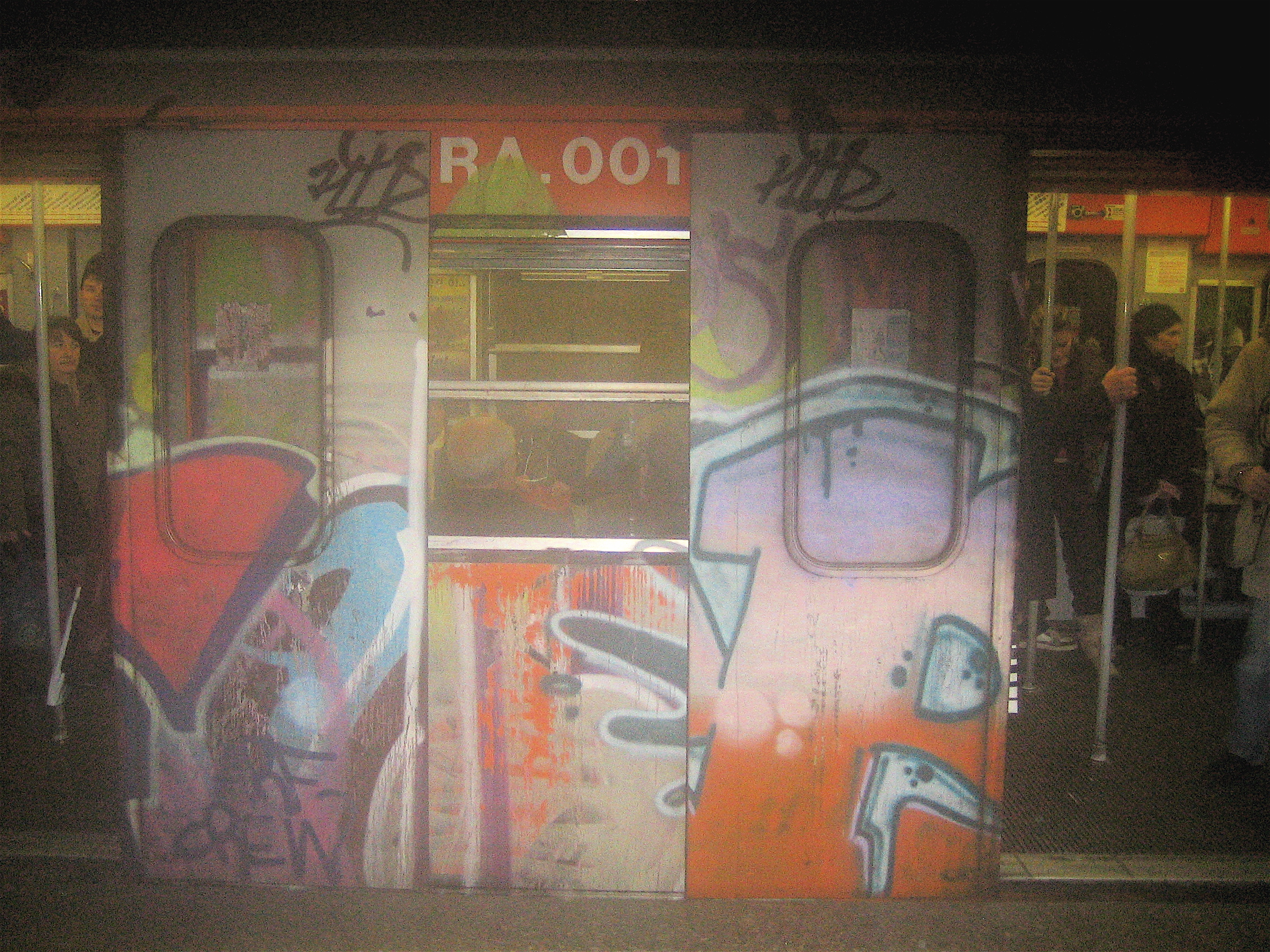 Picture of a subway in Rome ,shooten 01.02.2006